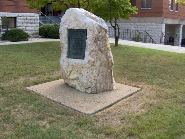 Plaque honoring Spencer Clack (1740-1832), a pioneer and founding father of Sevier County, Tennessee. This plaque is located on the grounds of the Sevier County Courthouse. It reads: 1740 - 1832 HON. LIEUT. SPENCER CLACK PIONEER SETTLER OF SEVIER CO. NAMED SEVIER CO. FOR HIS FRIEND THE GREAT JOHN SEVIER MEMBER CONVENTION 1796 MEMBER LEGISLATURE 1801 SERVED UNDER GEN. WASHINGTON IN REVOLUTIONARY WAR ERECTED BY THE SPENCER CLACK CHAPTER DAUGHTERS OF THE AMERICAN REVOLUTION 1931